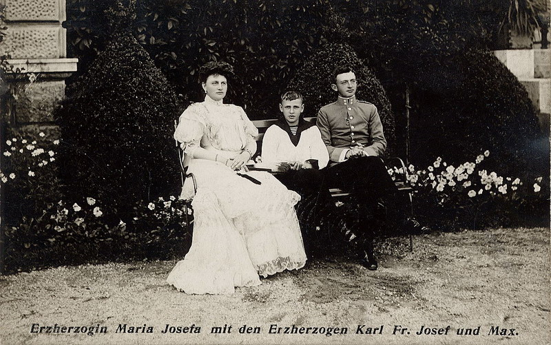 Archduchess Maria Josefa of Austria (1867-1944) and sons Maximilian (1895-1952) and Karl (1887-1922), 1910. Photographer: Carl Pietzner (1853-1927).